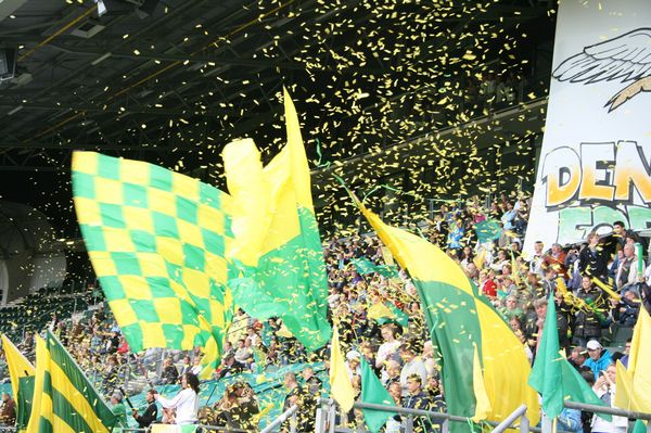 ADO Dames 2010/2011